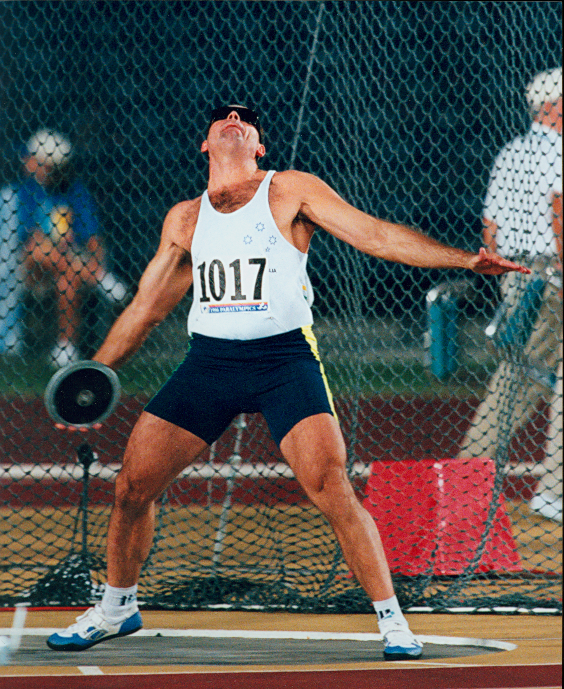 Australian athlete Mark Davies competes in the discus event at the Atlanta 1996 Paralympic Games.